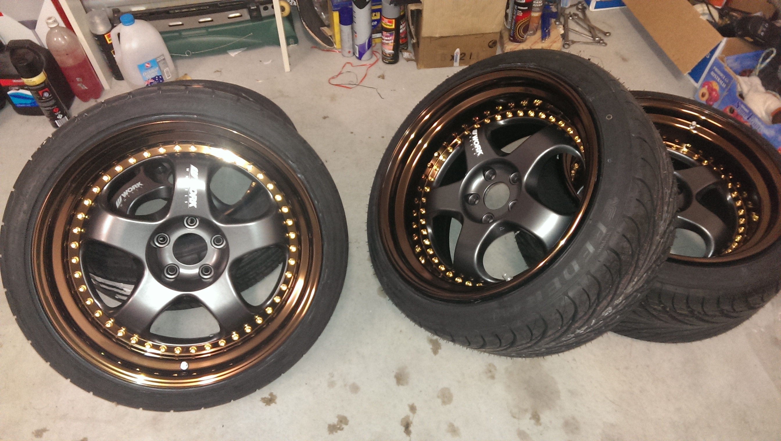 Work Meister S1 3p in Anodized bronze lip, gunmetal center and gold rivets in 19x9.5" (R disc)and 19x10.5" (O disc)